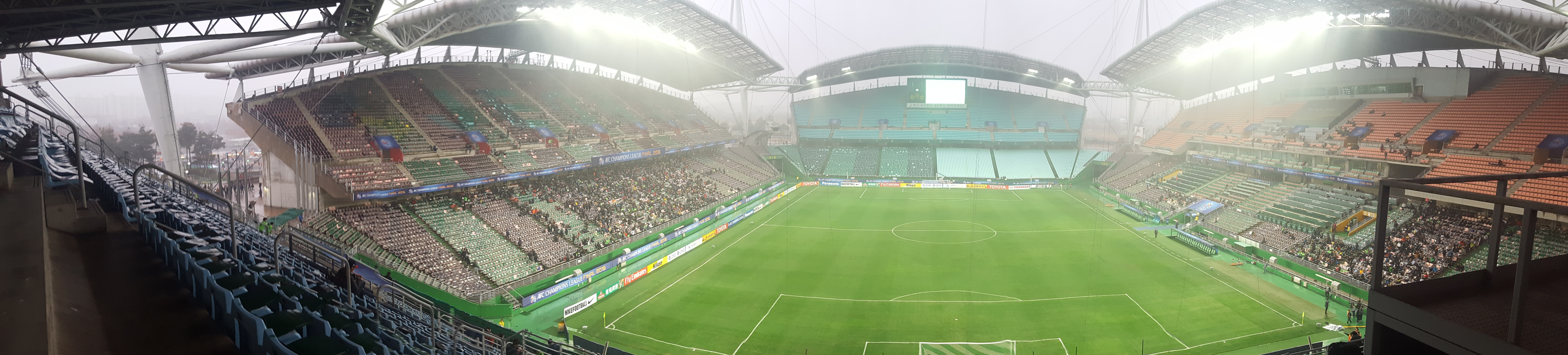 Jeonju Worldcup Stadium in 2016